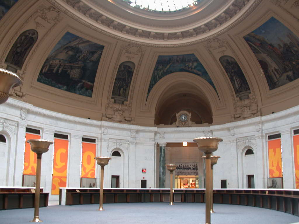 Rotunda with WPA mural panels above, in the Alexander Hamilton U.S. Custom House, in lower Manhattan, New York City. © 2004 Matthew Trump Category:United States history images